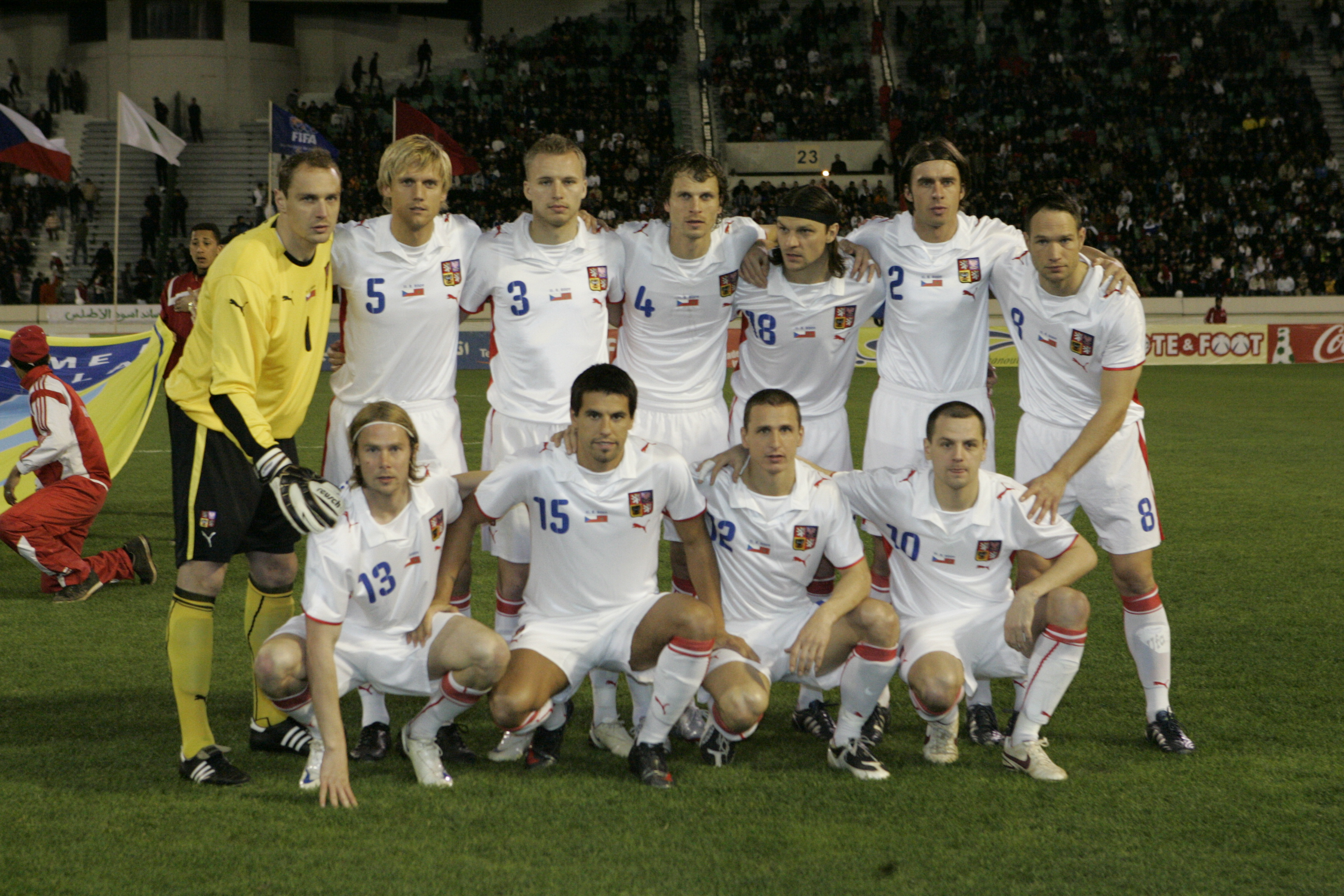 Czech Republic national football team, February 2009. L-R: Back row: Jaroslav Drobný, Radoslav Kováč, Michal Kadlec, David Rozehnal, Tomáš Ujfaluši, Zdeněk Grygera, Jan Polák. Front row: Jaroslav Plašil, Milan Baroš, Zdeněk Pospěch, Marek Matějovský.